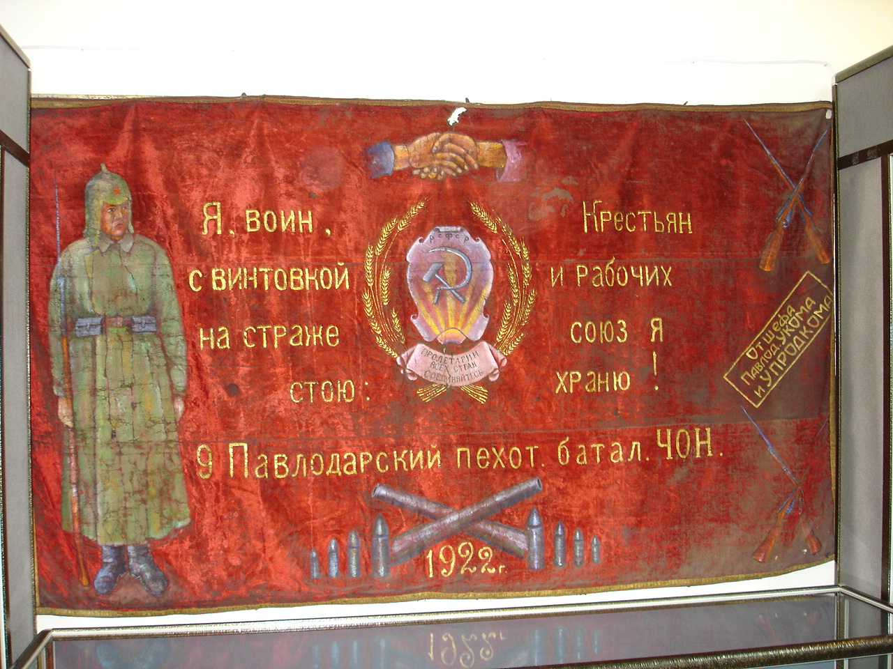 Pavlodar, Kazakstan. Pavlodar infantry batallion banner. 1922